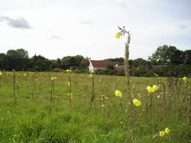 Evening Primrose in the Afternoon. This bit of scrubland had an amazing display of Evening Primrose in it. Just by the B1085 SW of the pub in Red Lodge.